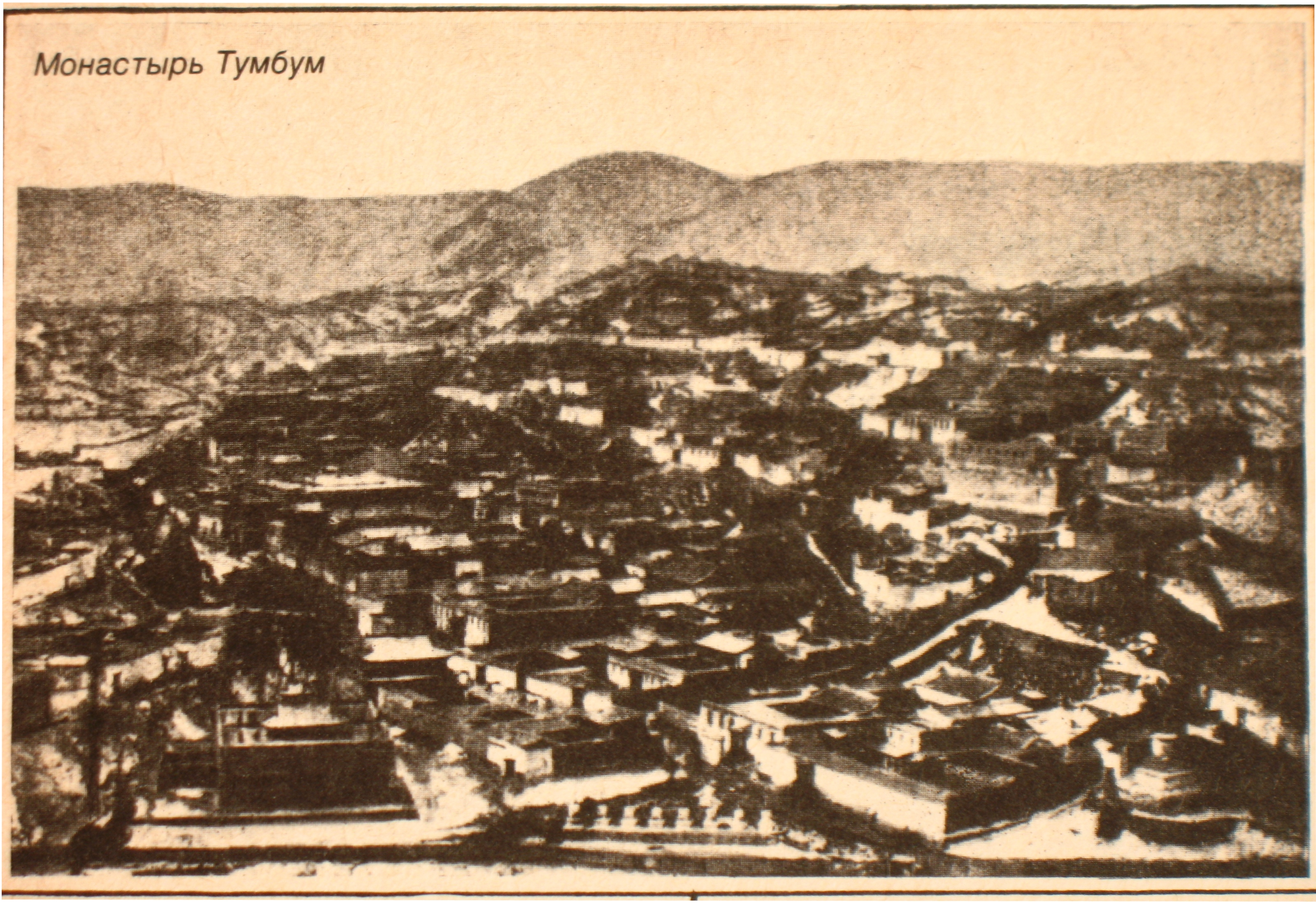 Gombojab Tsybikov photo in Tibet-Mongolia Gumbum Monastery. Буддийский монастырь Тумбум (Гумбум, родина Цзонхава) (во Внутренней Монголии, сейчас Китай) на пути из Бурятии в Тибет. Находился в 25 верстах от города Синин-Фу. Фотография сделана скрыто; вероятно, через прорезь в молитвенном барабане. 1900 год.